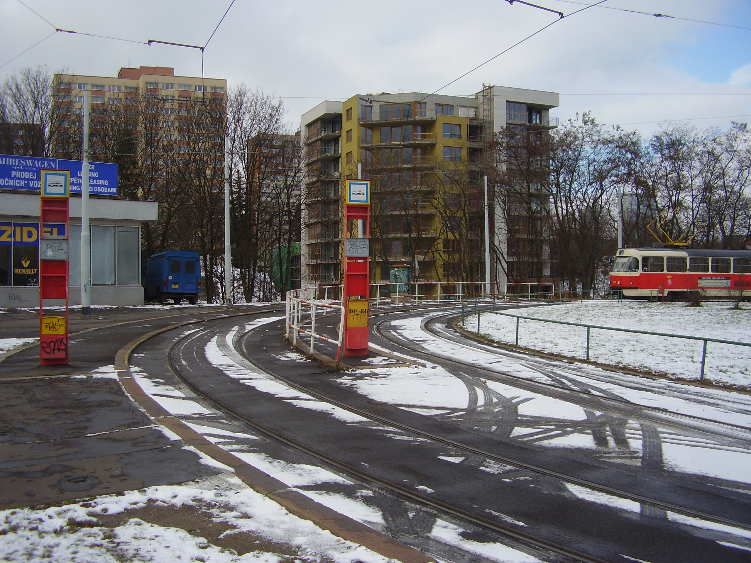 Departute places on tram loop Červený vrch, Prague 6